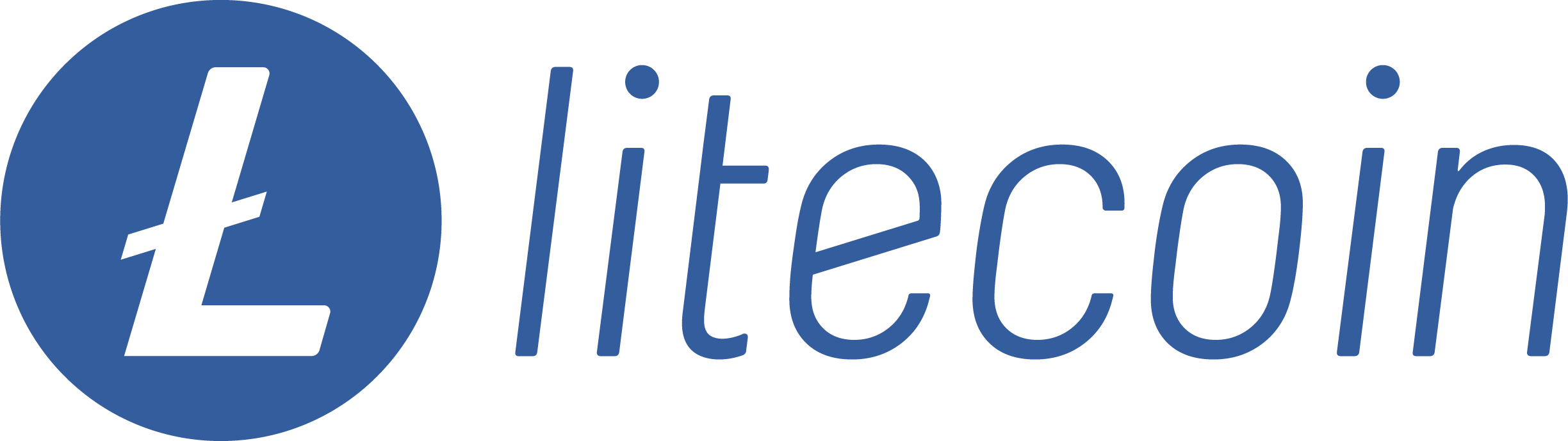 Latest Litecoin Logo - version 5